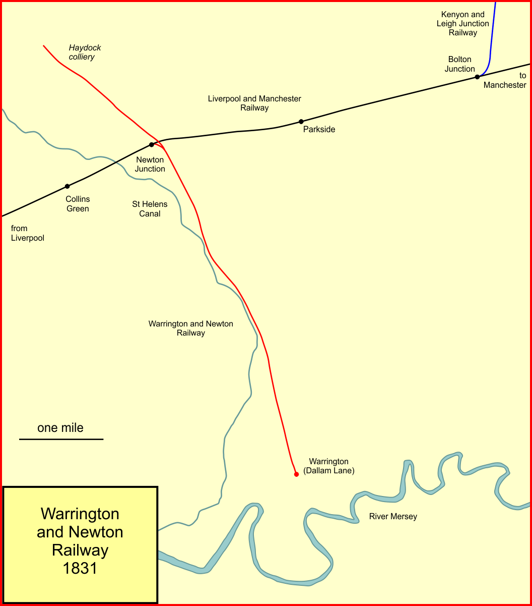 System map of the Warrington and Newton Railway, Lancashire, England, in 1831